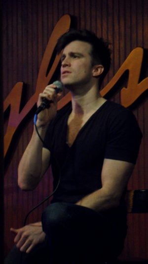 Gavin Creel performing at Boston's Ryles Jazz Club in December 2010.